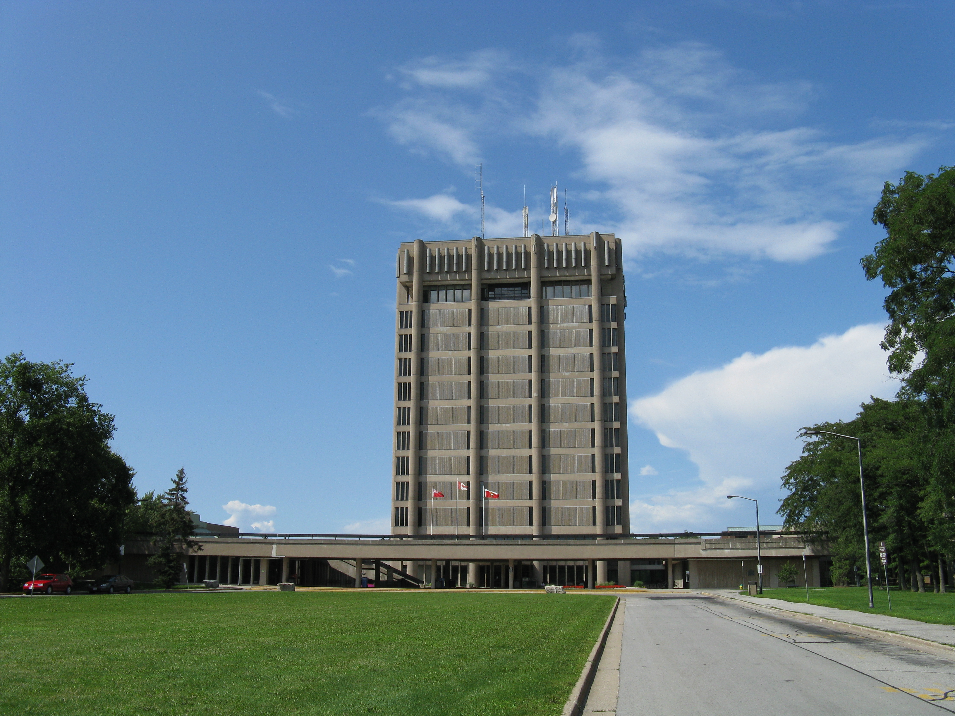 Arthur Schmon Tower at Brock University. Built in 1968, it houses the university library. Taken on August 2, 2008 Source: Photo by me, User:Balcer.